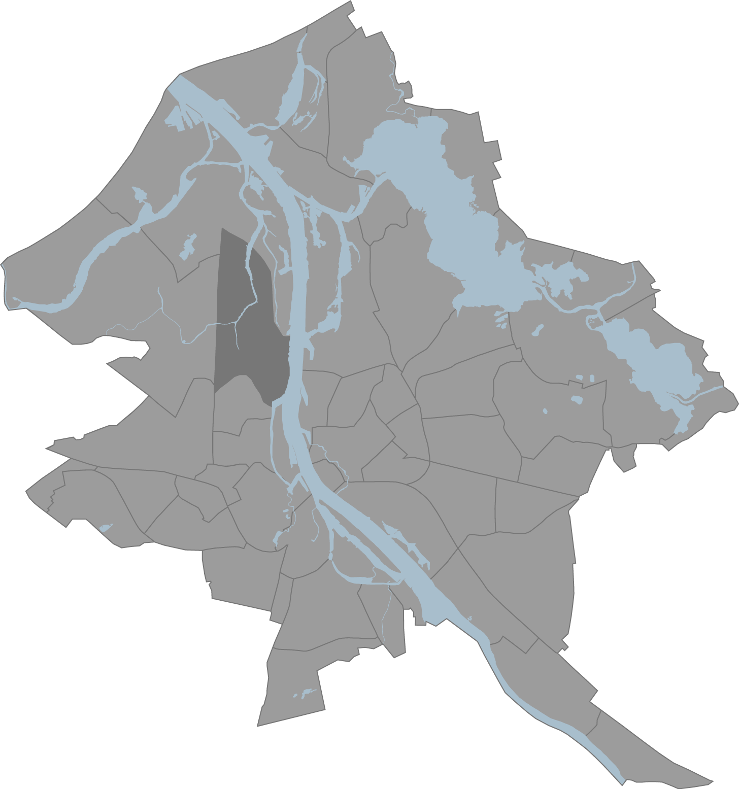 A map of Riga, Latvia with the eponymous commune highlighted